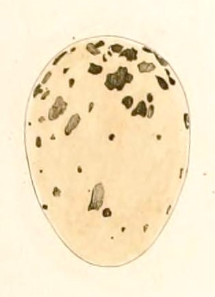 « Tyrannus sulphuratus » = Pitangus sulphuratus (Great Kiskadee) - egg